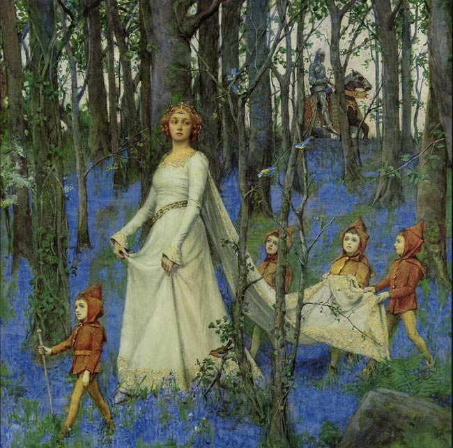 The Fairy Wood